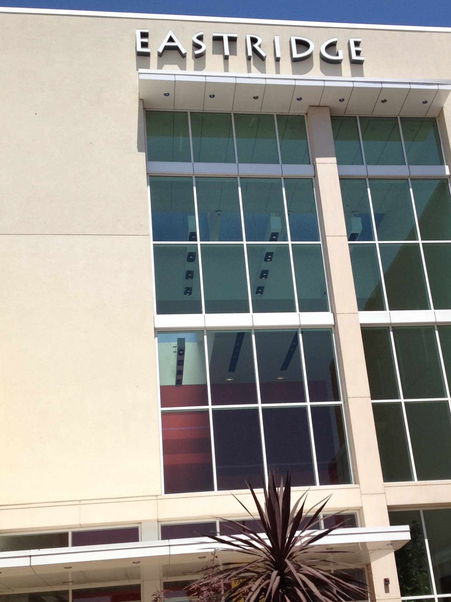 One of the entrances (or at least the upper part-I had to cut out the doors to remove myself from the photo)